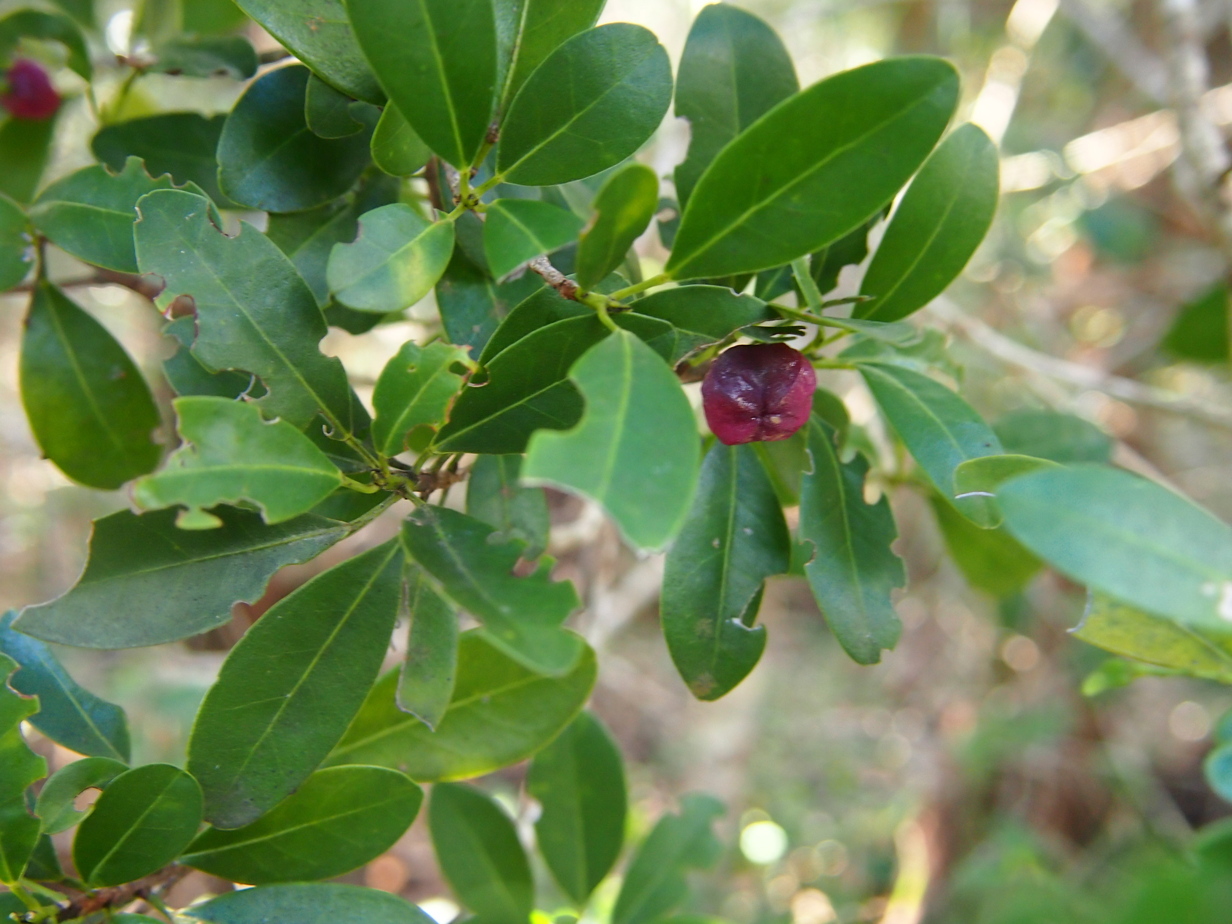 Acronychia laevis fruit